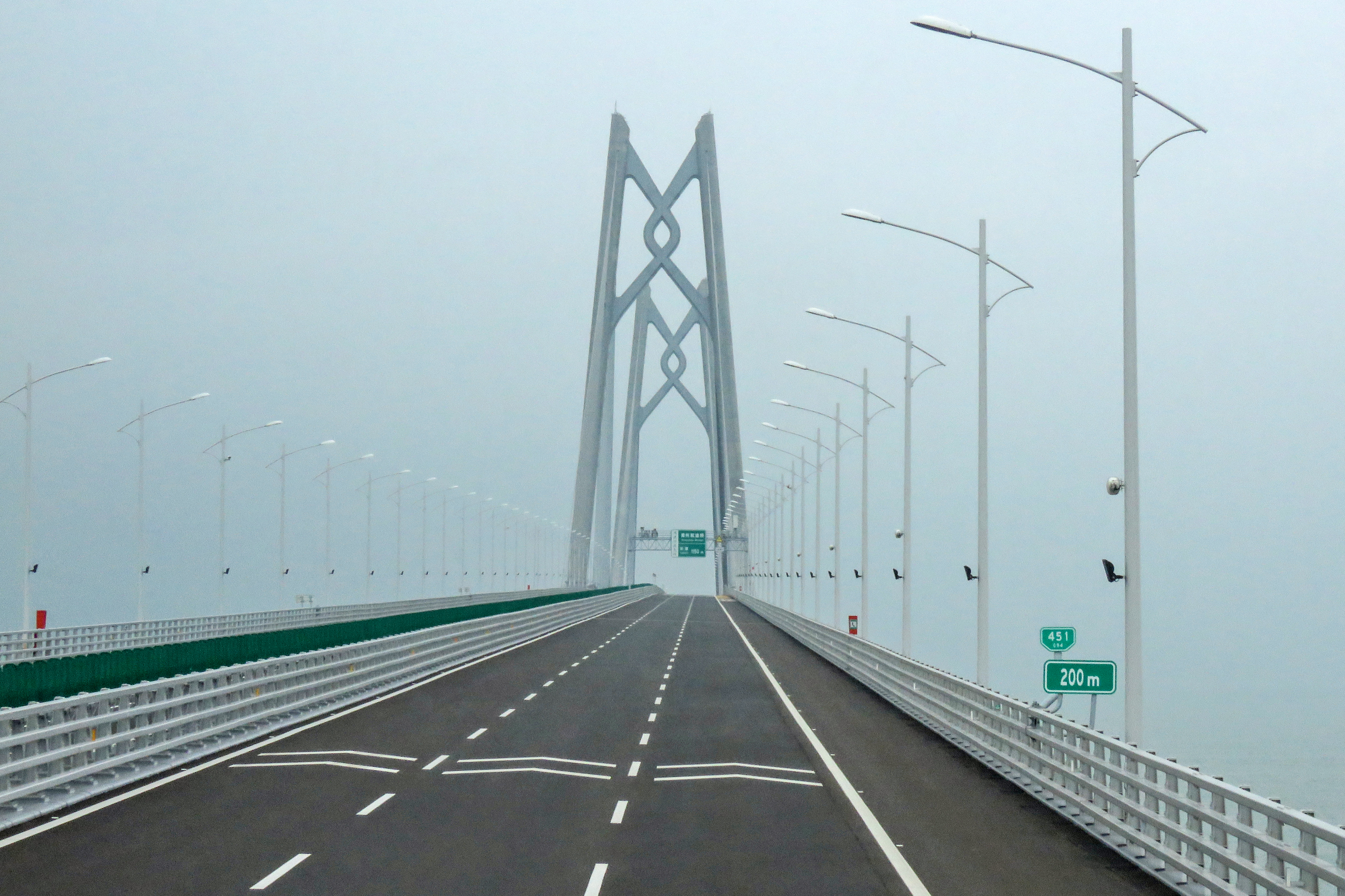 Taken from the shuttle bus. The first row is occupied...